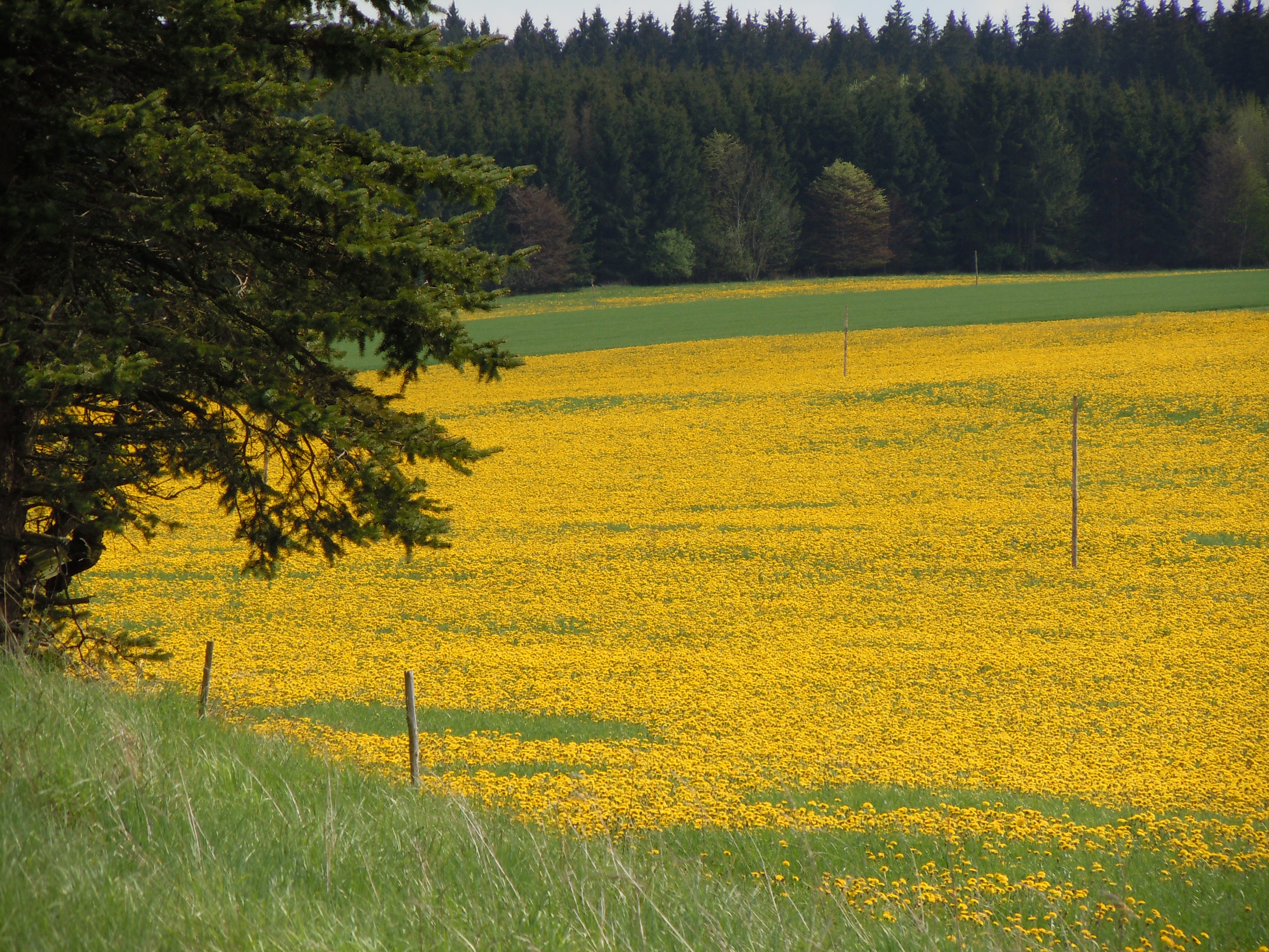 Dandelion